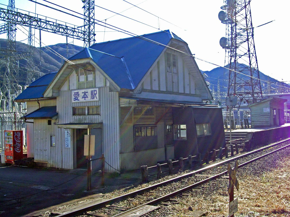 Aimoto station of Toyama Local Rail.